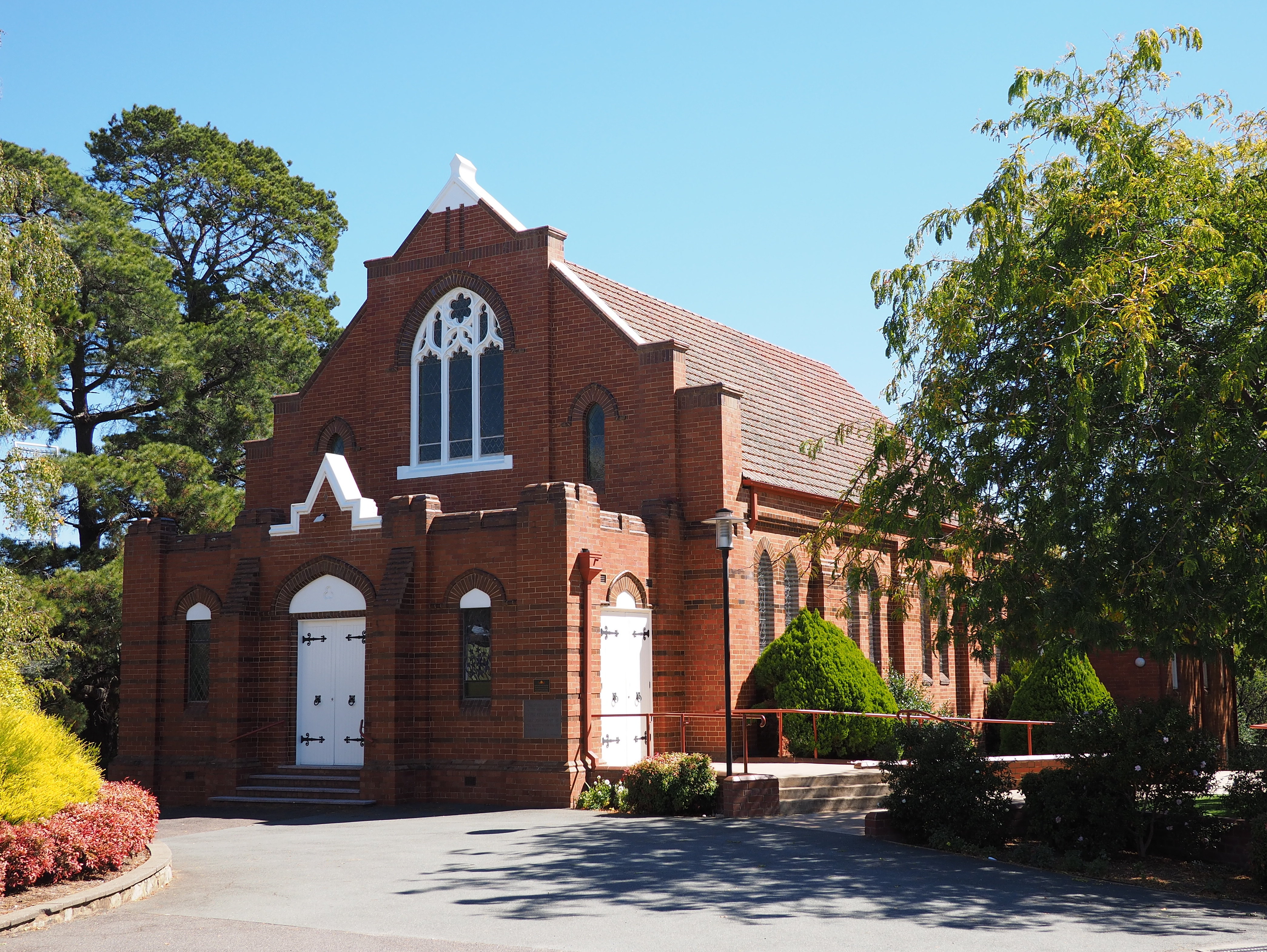 Canberra Baptist Church in Kingston